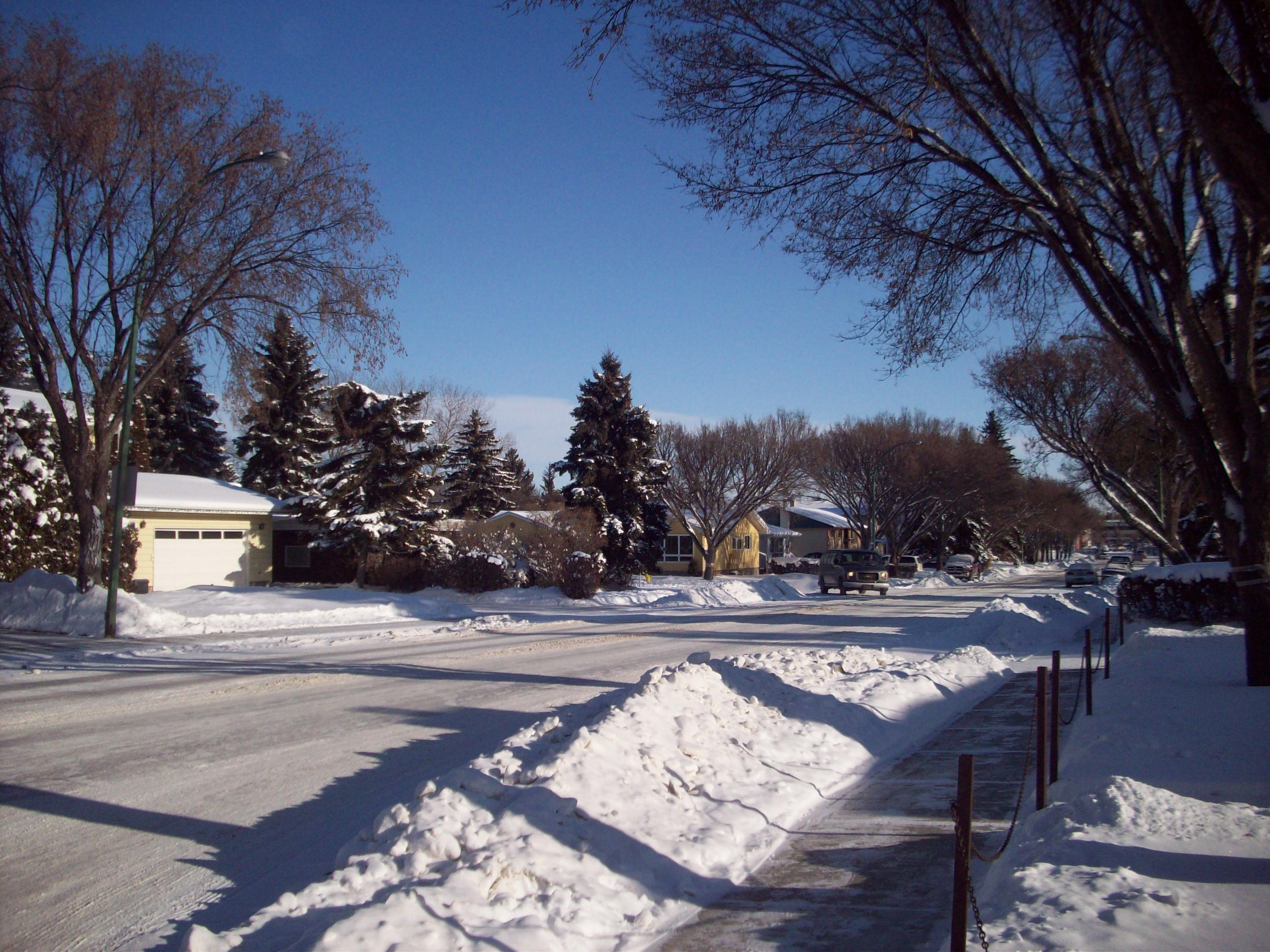 Regina streetscape